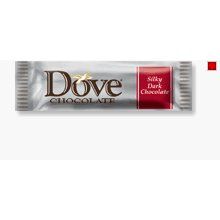 Dove in 1998